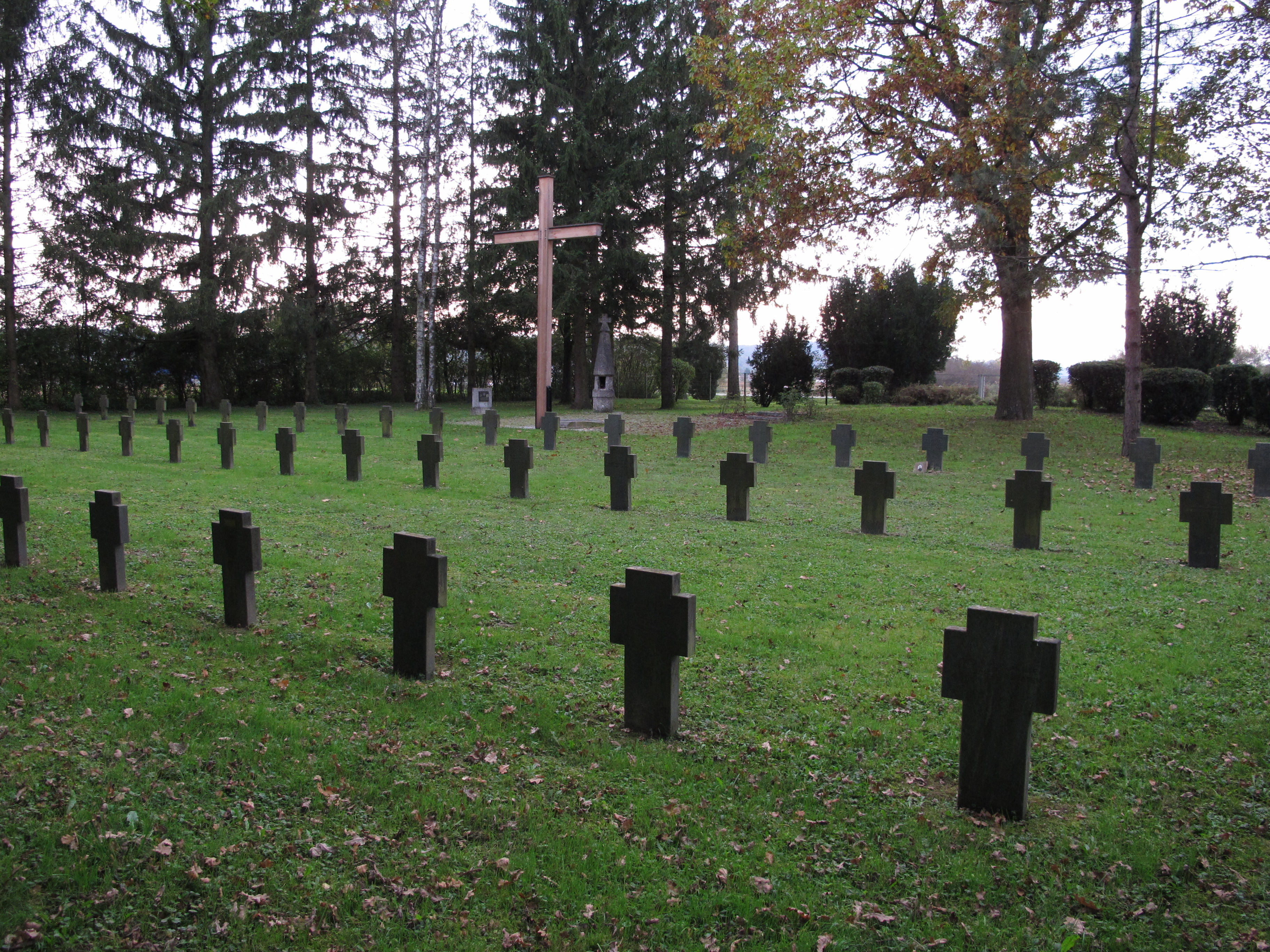 World War II